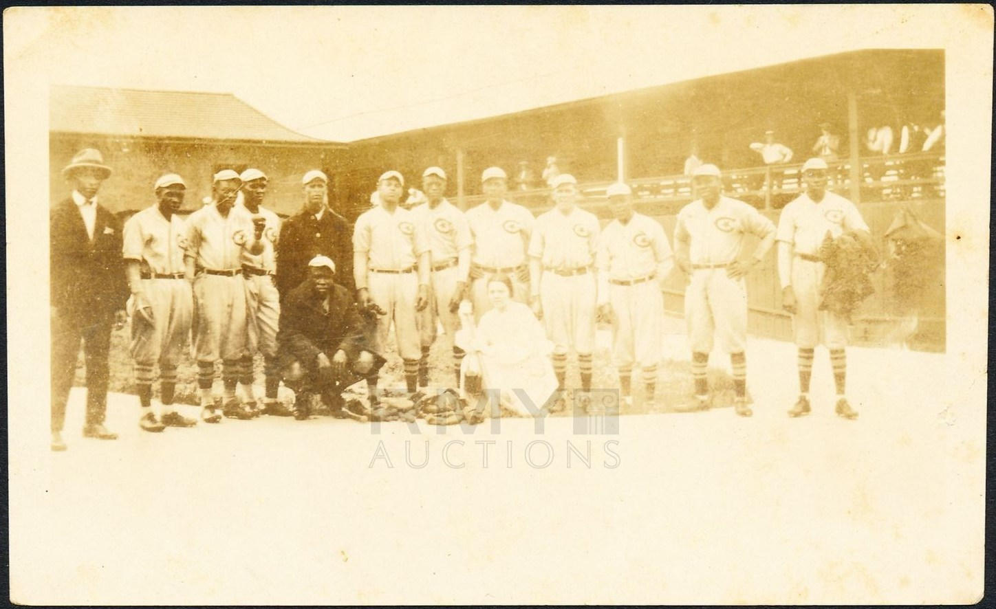 1920 team photograph of the Negro League Cuban Stars West posed at the ballpark. Image includes twelve players in uniform (all identified) along with a young lady and a manager in a suit. Included in the photo are Juan Guerra, Eufemio Abreu, Valentin Drake, Julio LeBlanc, Eustaquio Pedroso (kneeling, one of the best pitchers in the Cuban and early Negro Leagues who even threw a no-hitter against the Detroit Tigers), Hernan Rios, Bernardo Baro, Hooks Jiminez, Jose Fernandez, Pasquel Martinez, Ramon Herrera and Cando Lopez.